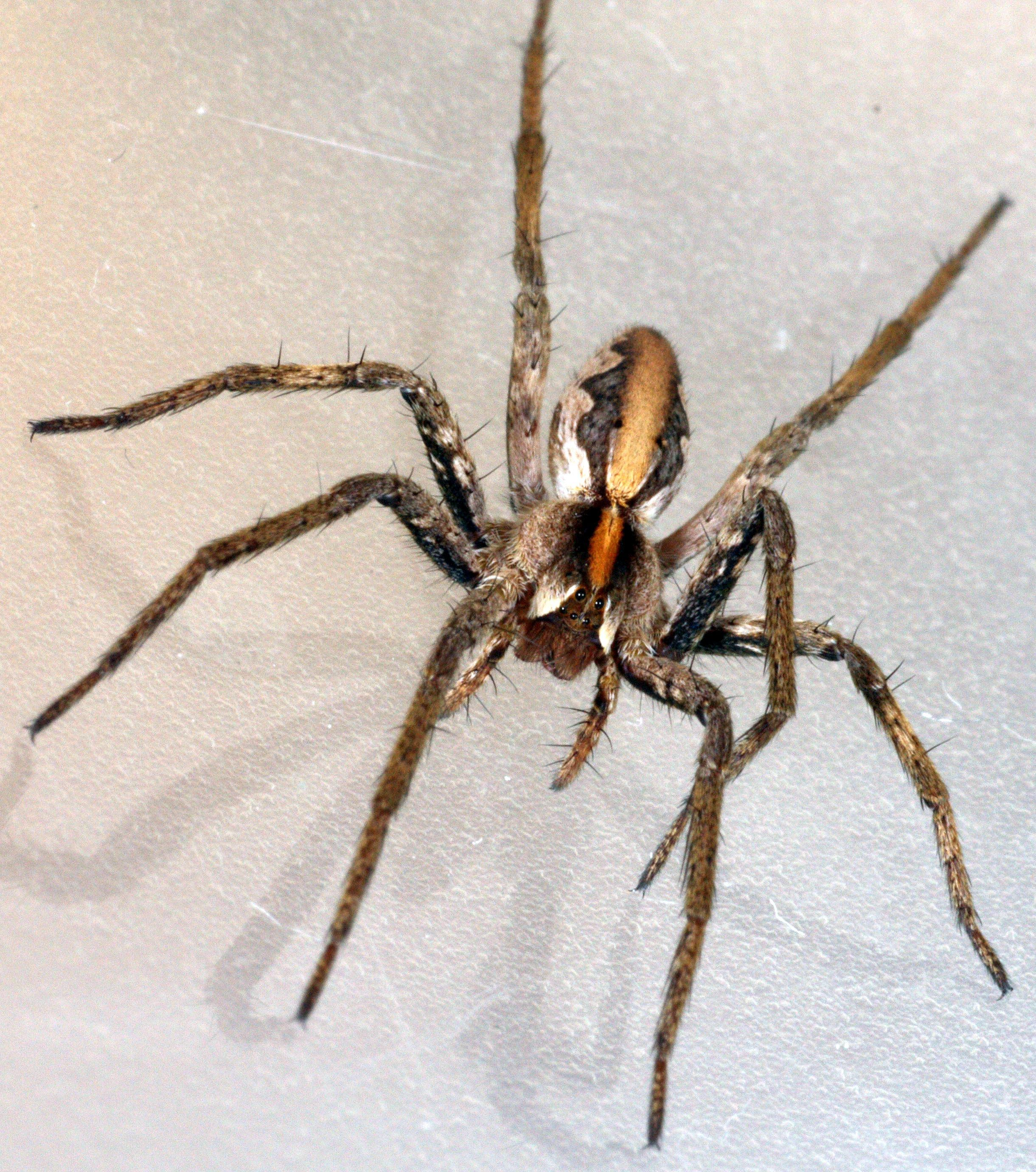 Young male Nursery web spider Pisaura mirabilis